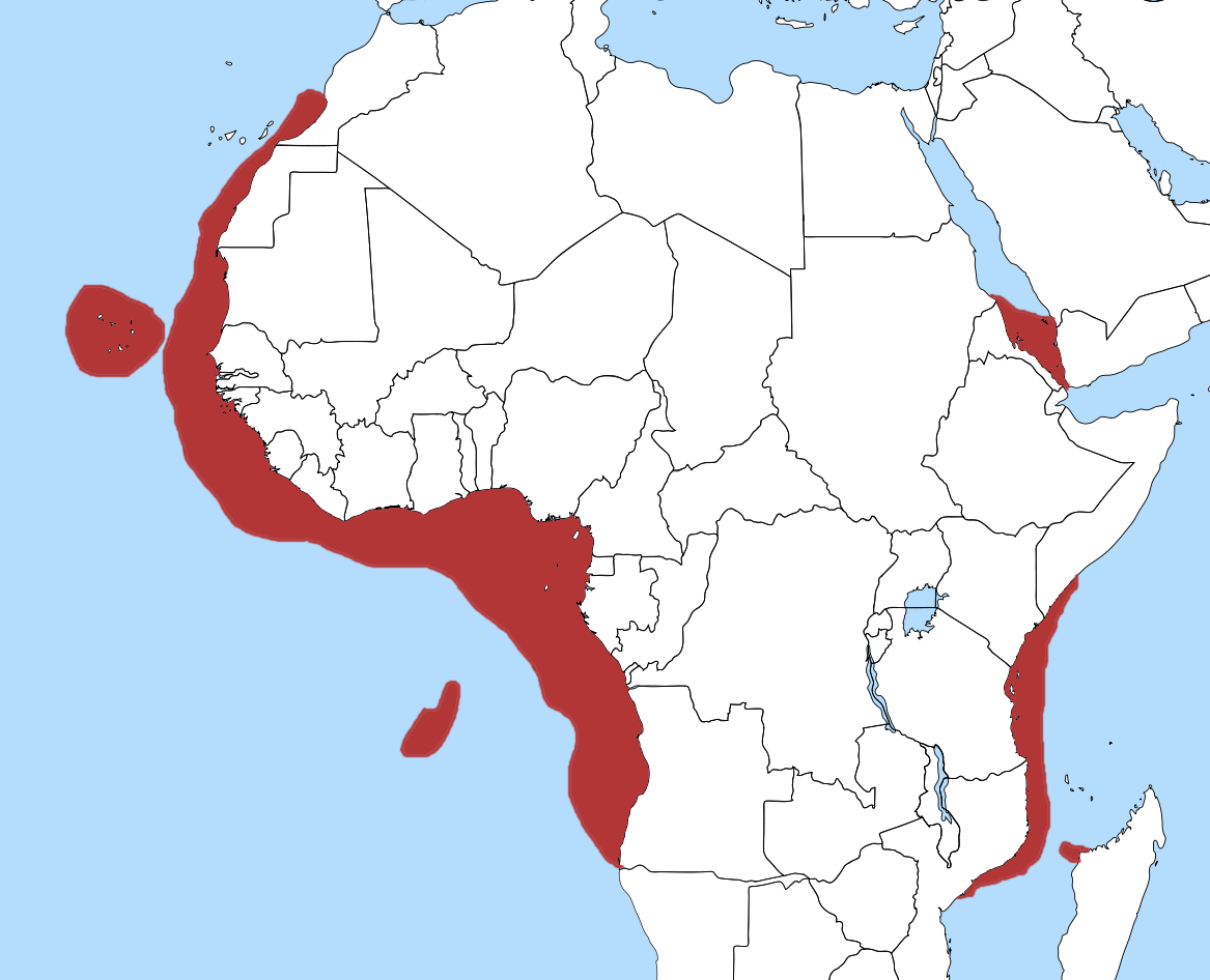 The Range of the Round Fantail Stingray